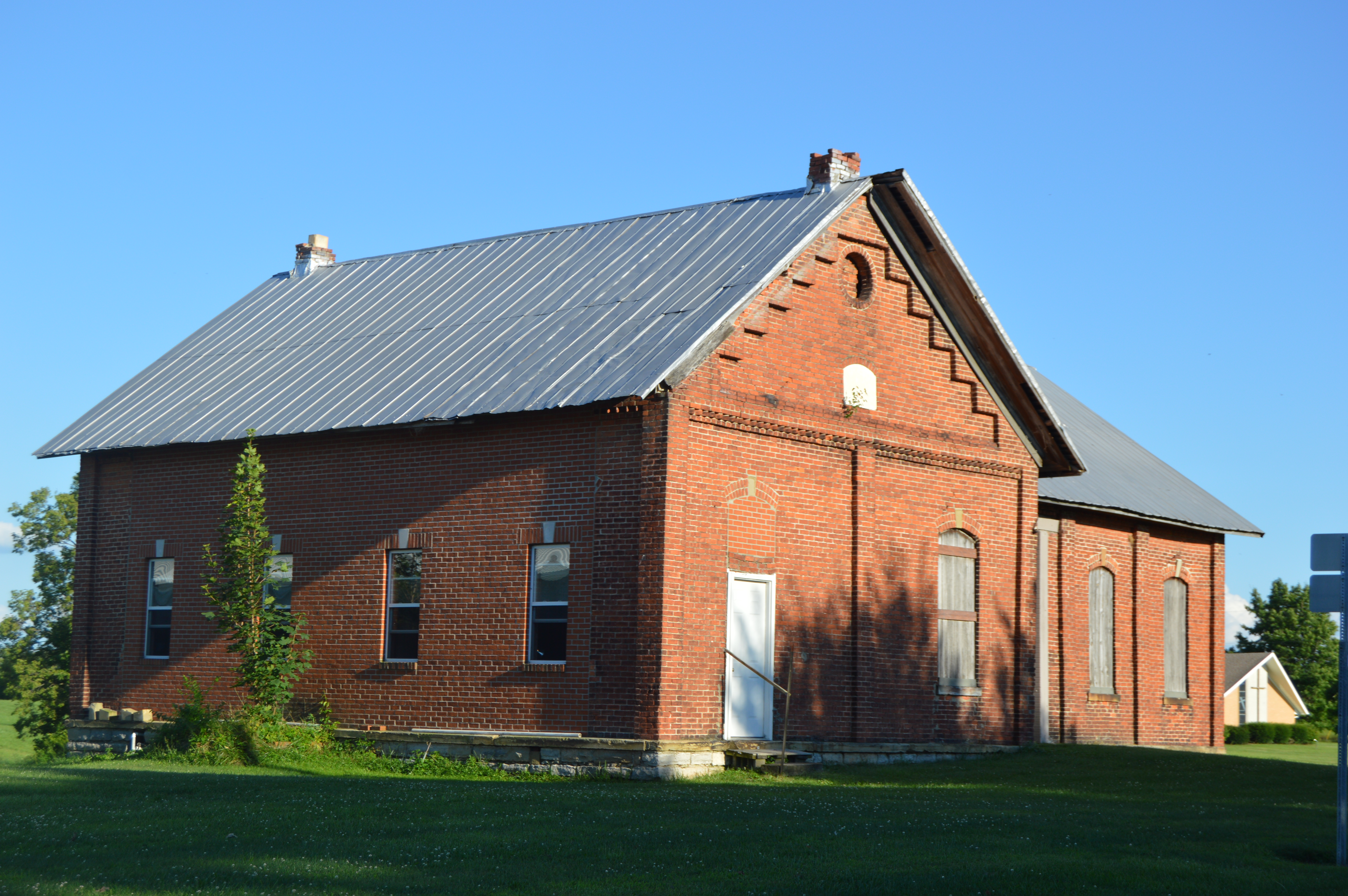 Front of the former York Township school, located on the eastern side of State Route 739 on the southern end of York Center, Ohio, United States. It was built in 1881.